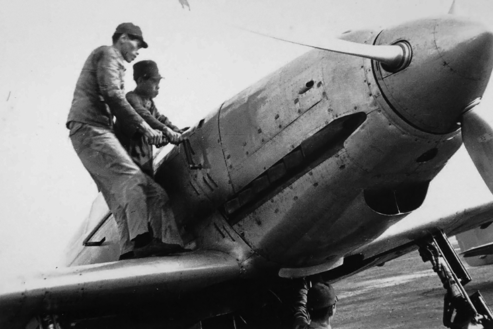 ground personnel starting the engine of the first Ki-60 prototype with a handcranck